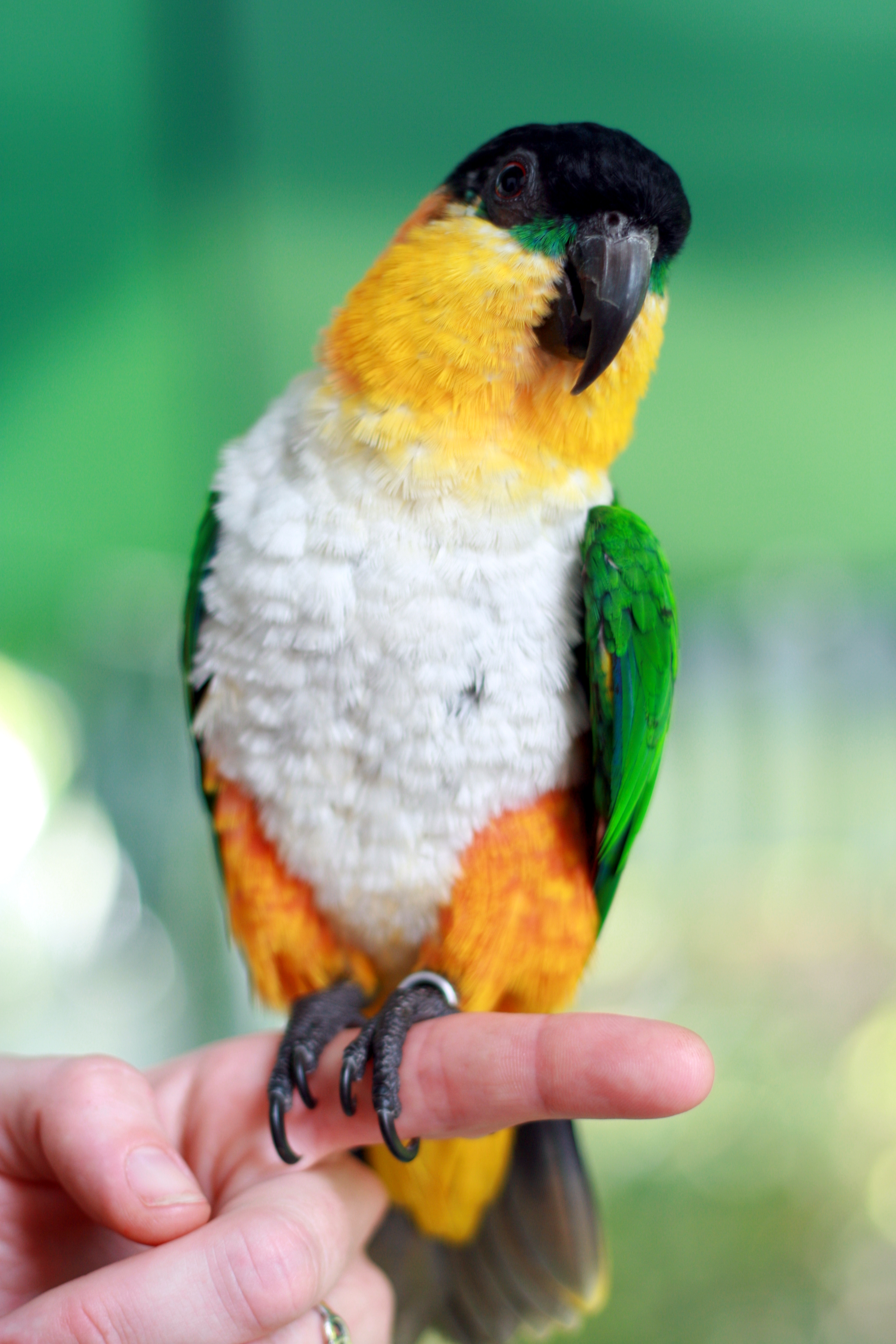 Black-headed Parrot (Pionites melanocephalus), also known as the Black-headed Caique, Black-capped Parrot.